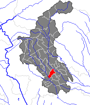 This map shows the area of the Gemeinde (municipality) Albersdorf-Prebuch in the Bezirk (district) Weiz, Styria, Austria.